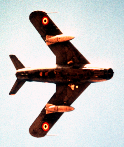 An underside view of an Egyptian (Soviet built) MiG-17F aircraft in flight.